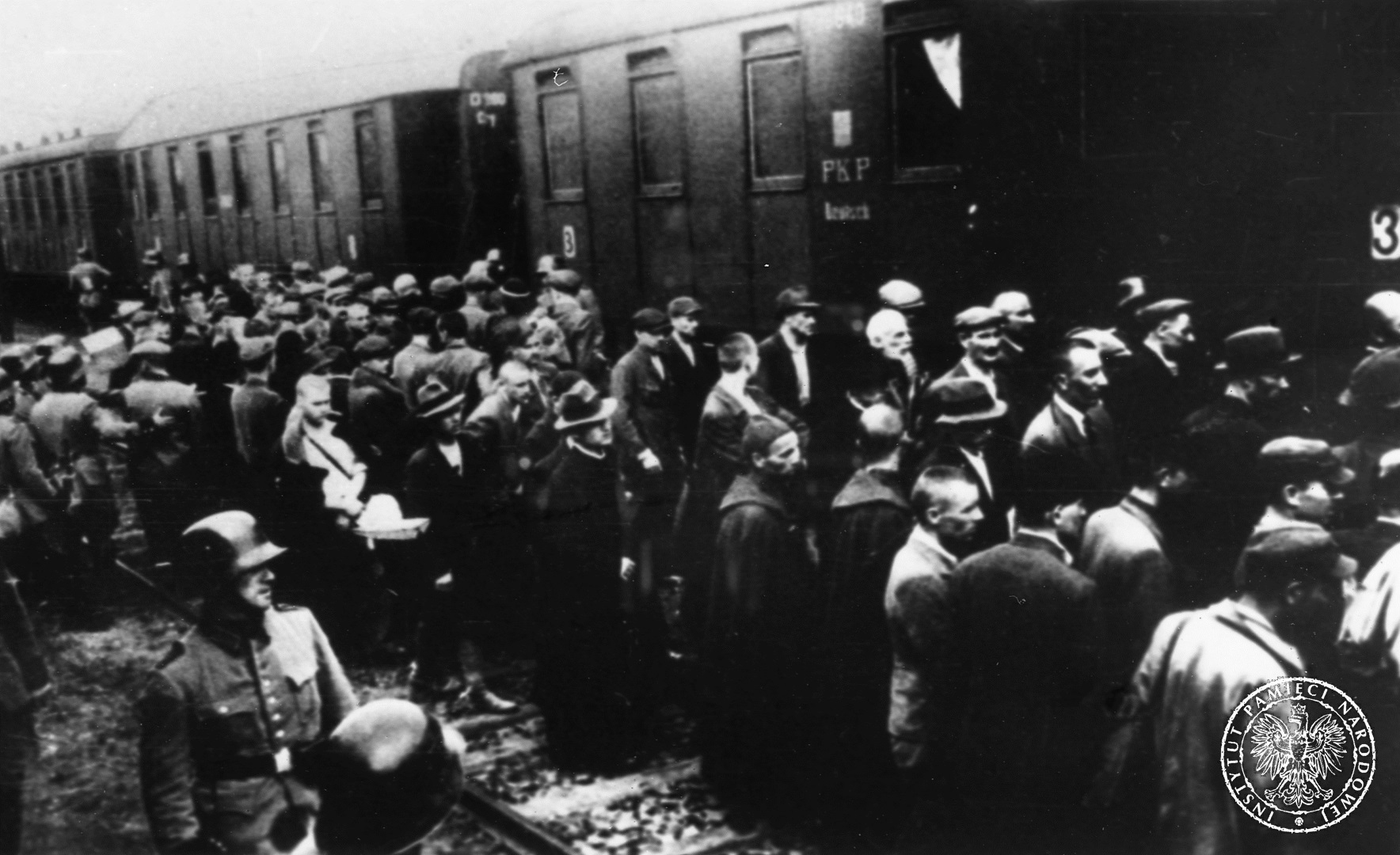 Prisoners from the first transport to KL Auschwitz at the train station in Tarnów. The transport was composed mostly of Polish political prisoners but among them were also some Jews.